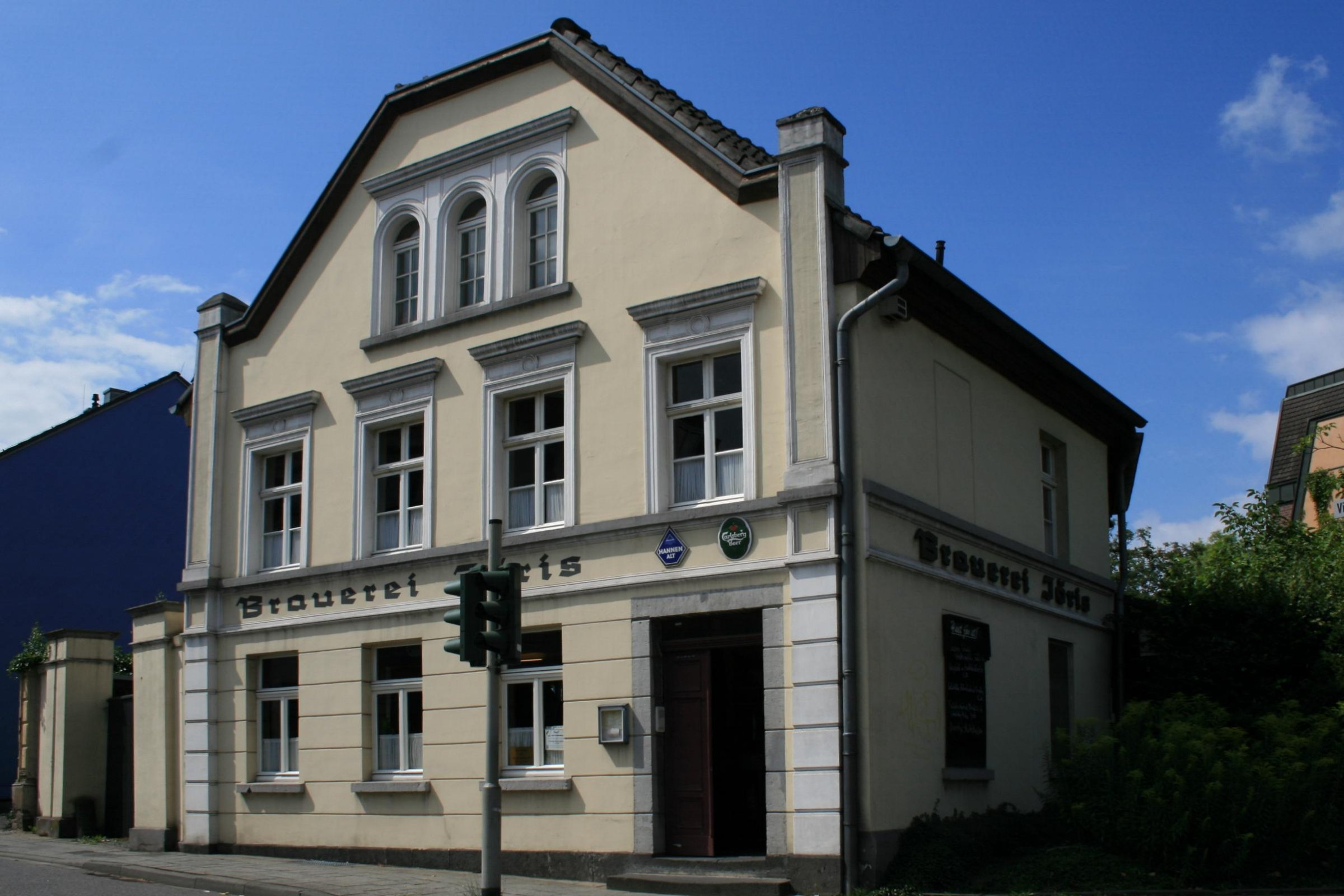 Cultural heritage monument No. S 002 in Mönchengladbach